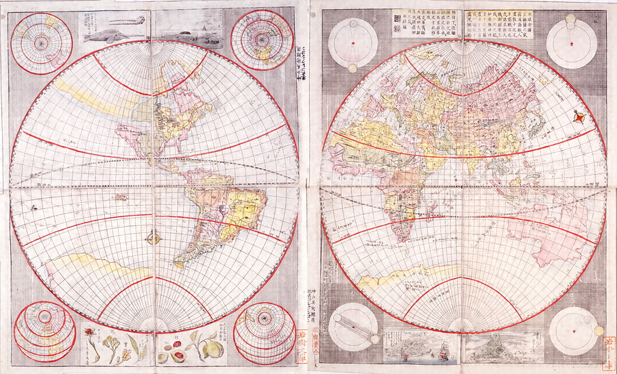 Japanese map of the world, 1792.